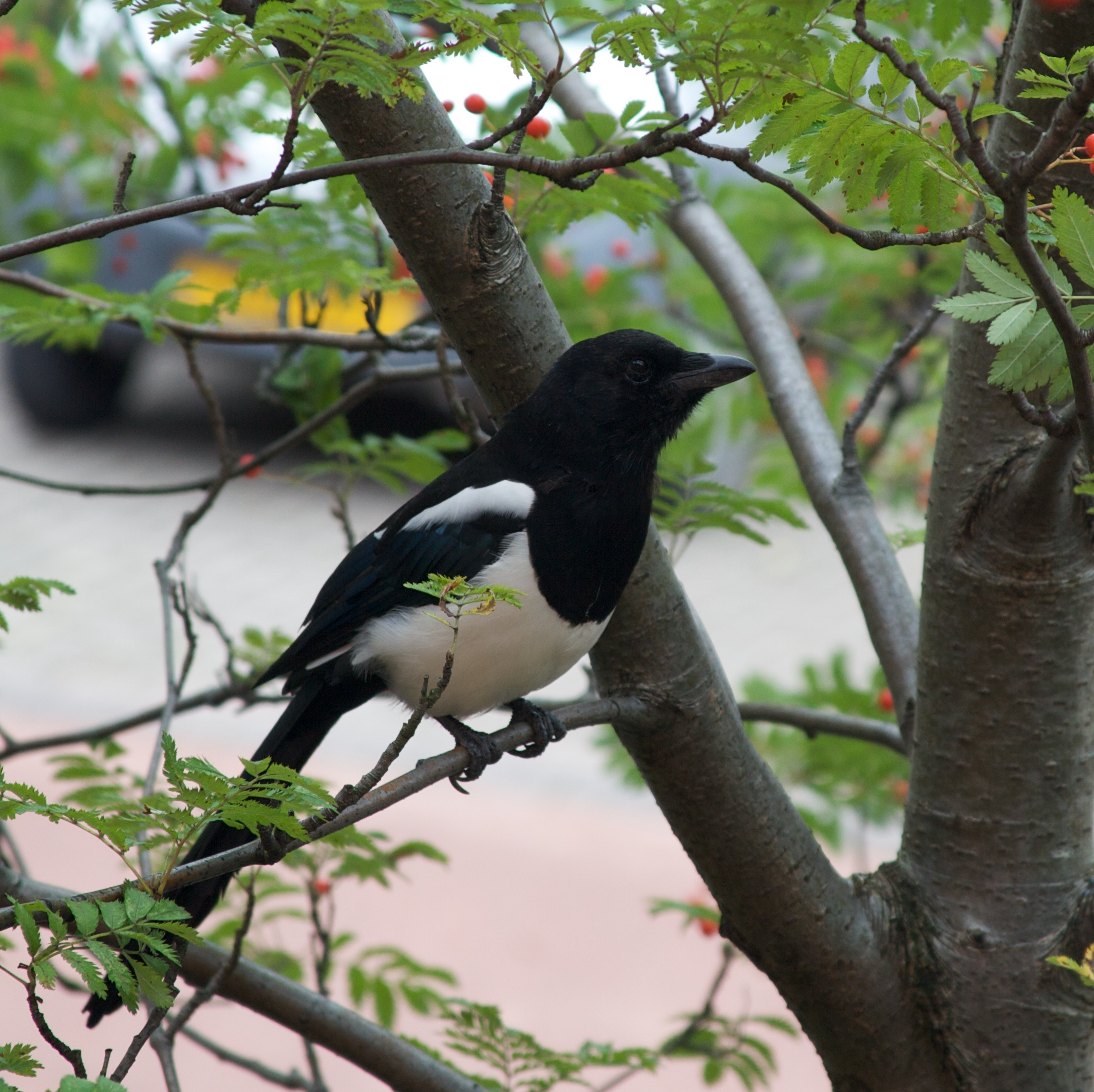 A European Magpie, also called a Common Magpie, perching on a branch of a Rowan tree in Manchester, England.